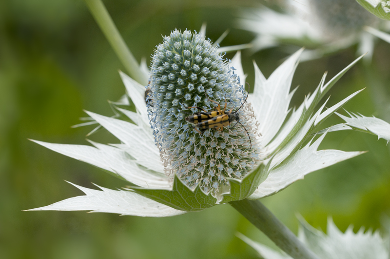 Flower of Miss Willmott's ghost (Eryngium giganteum). Tamdere, Dereli - Giresun, Turkey.